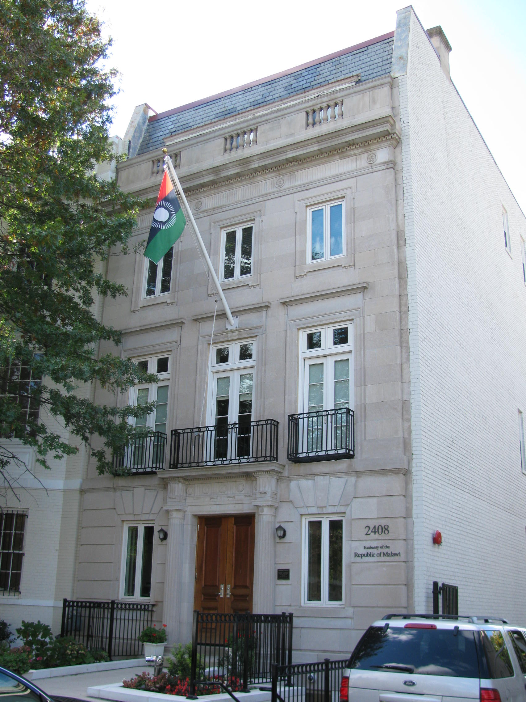 Embassy of Malawi in Washington, D.C. 2408 Massachusetts Avenue NW